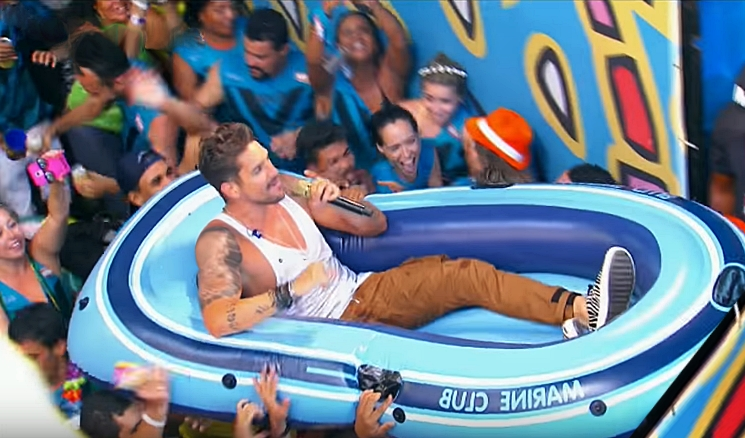 Felipe Pezzoni, vocalista da Banda Eva, se joga no meio do público em cima de um bote salva-vidas durante o Carnaval de 2017